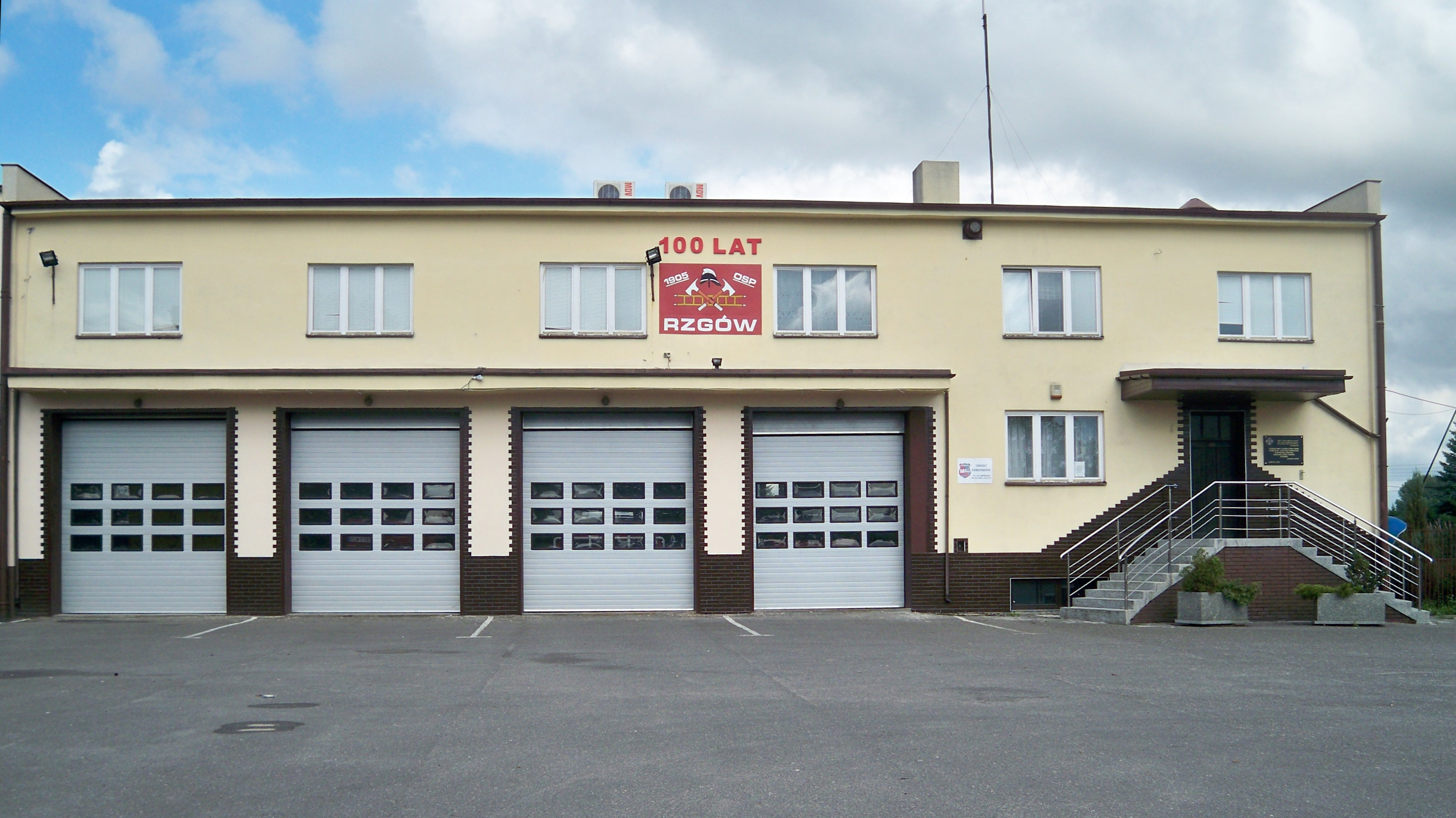 Fire station in Rzgów.